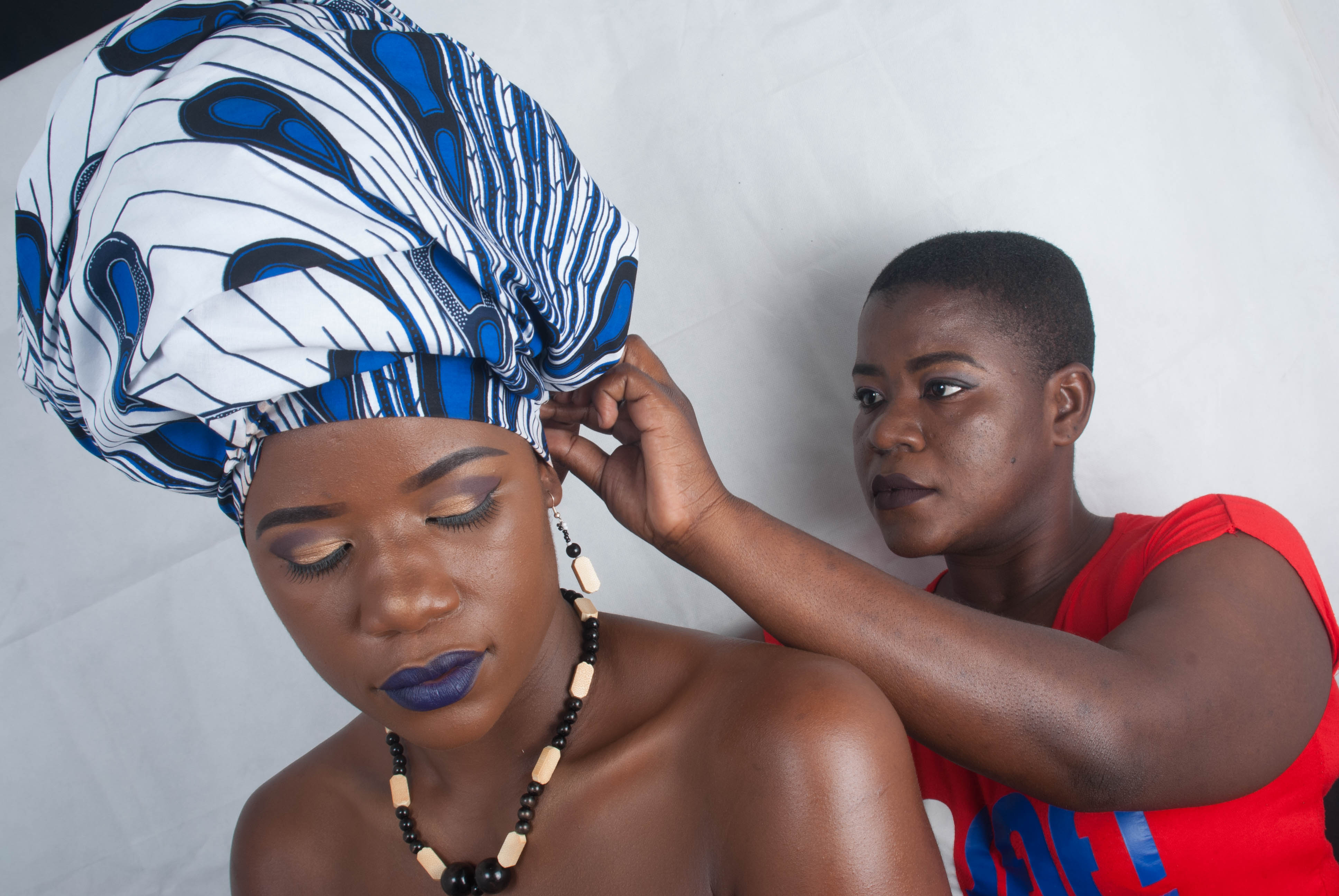 This photo was taken in the photo studio, where by one is stylist (makeup artist) and the other one is a model, during the photo shoot for the advertising African Fabrics and beauty of African women This is an image of "African people at work" from Tanzania